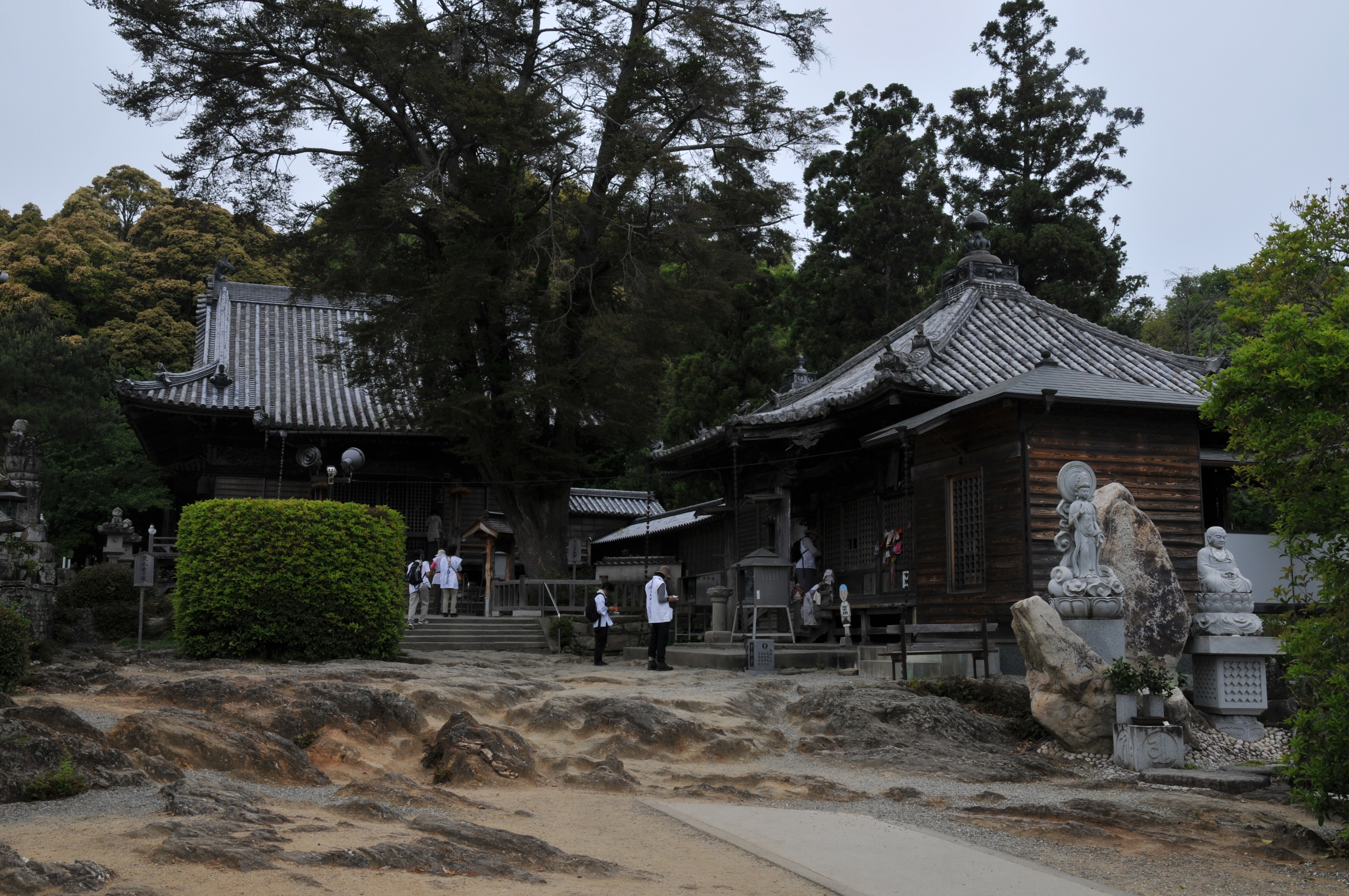 Jōraku-ji temple